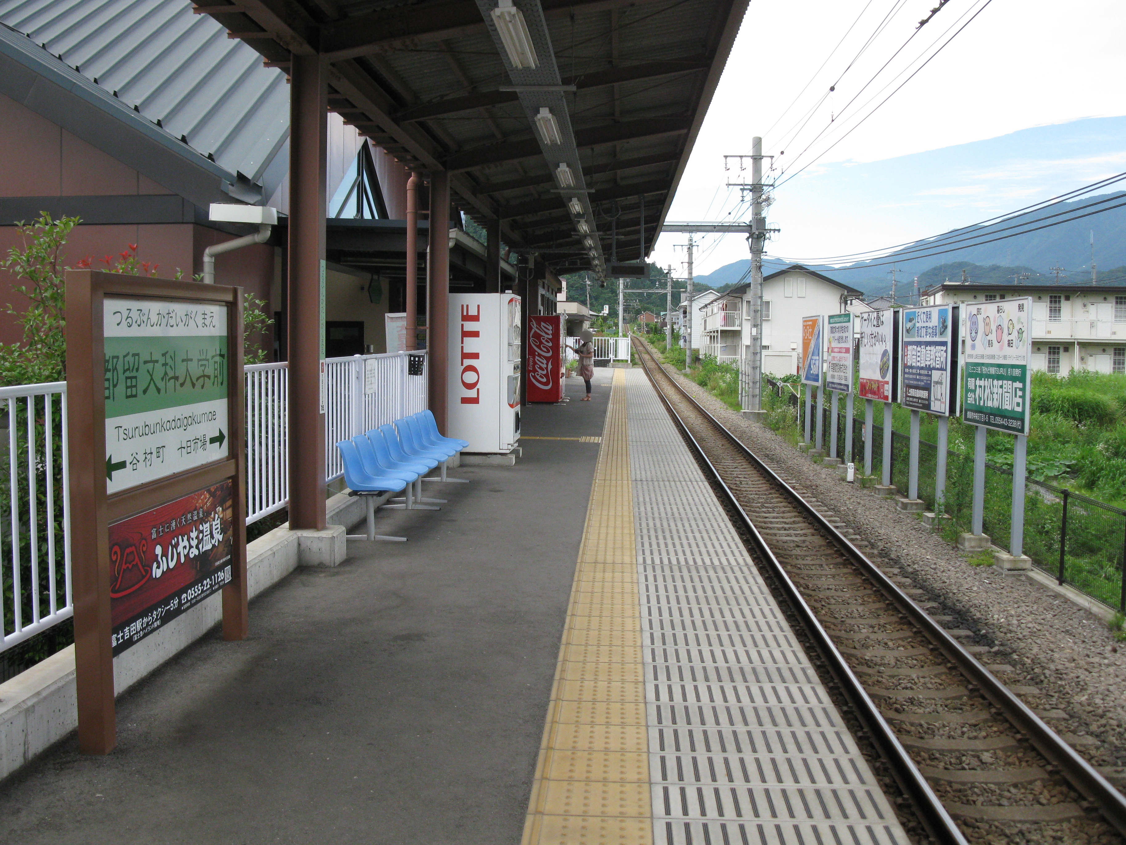 Tsurubunkadaigakumae Station platform (Fuji Kyuko Ōtsuki Line)